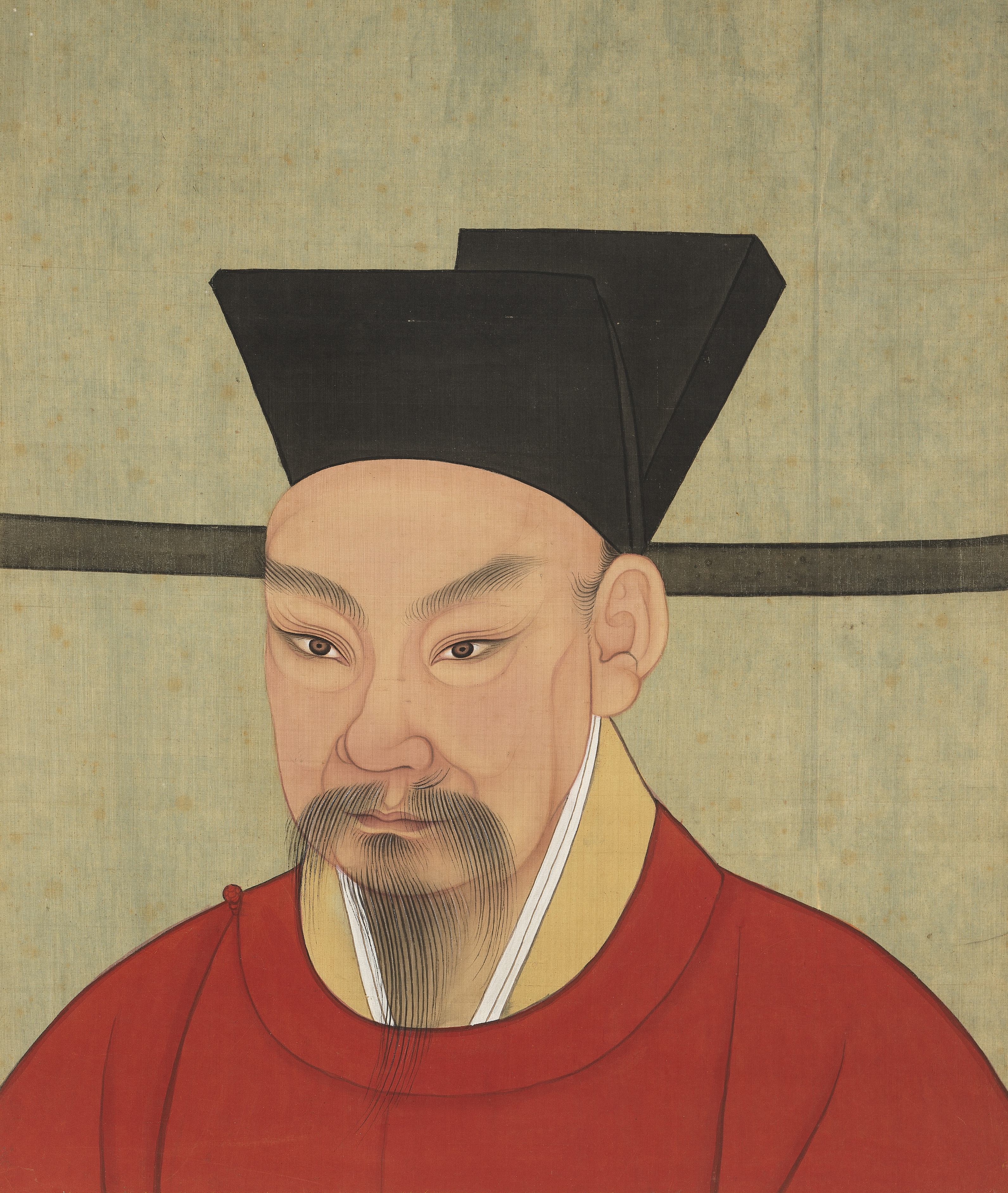 Song Lizong.